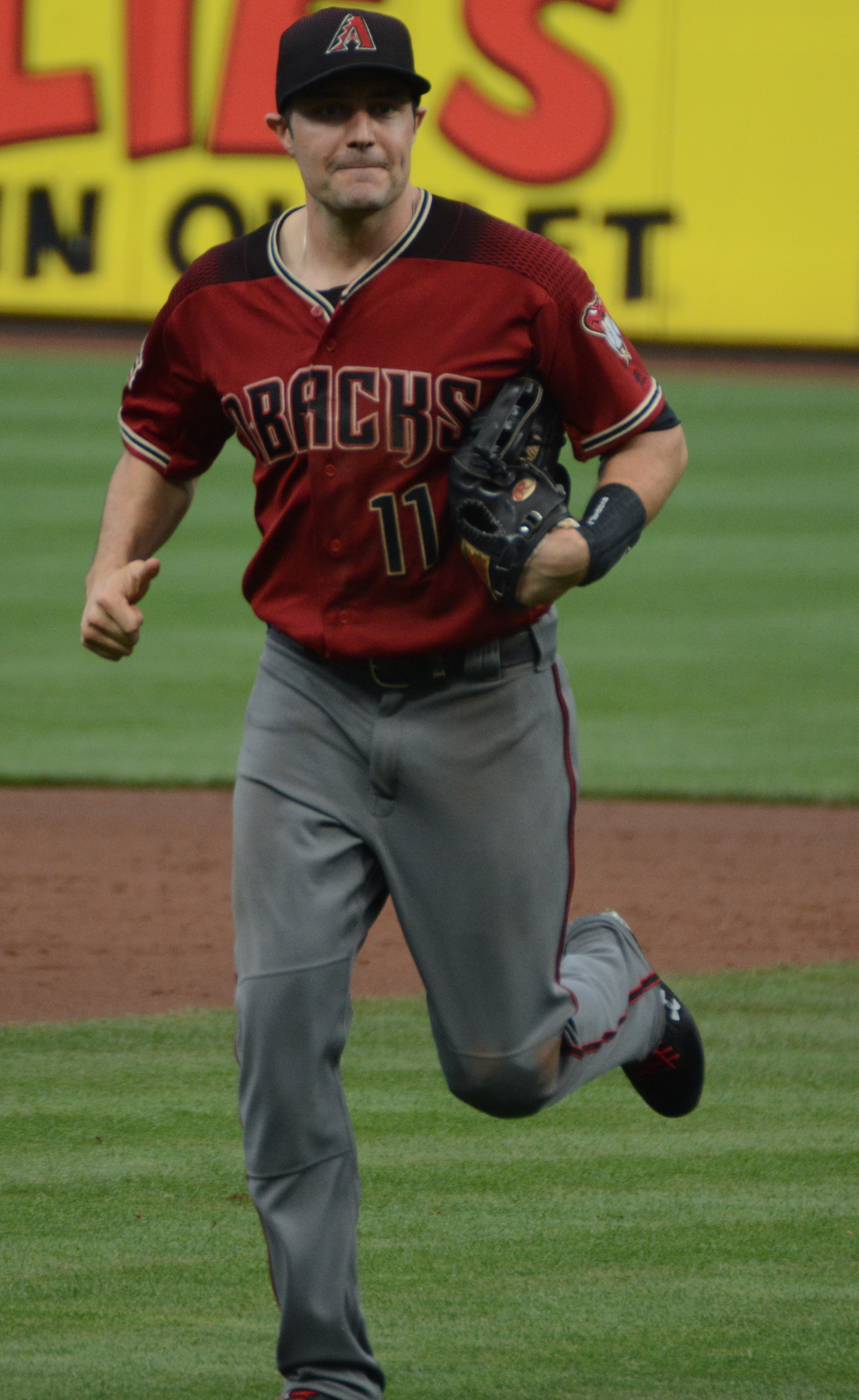 Taken at a baseball game between the Cincinnati Reds and the Arizona Diamondbacks on August 11, 2018 at Great American Ball Park in Cincinnati, Ohio.